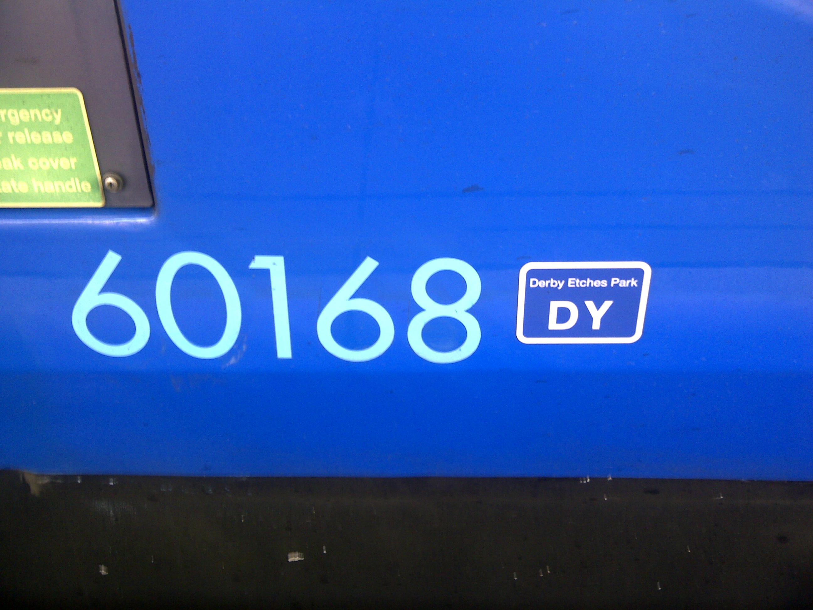 The photo is my own work. DY Depot Sticker on 222008.